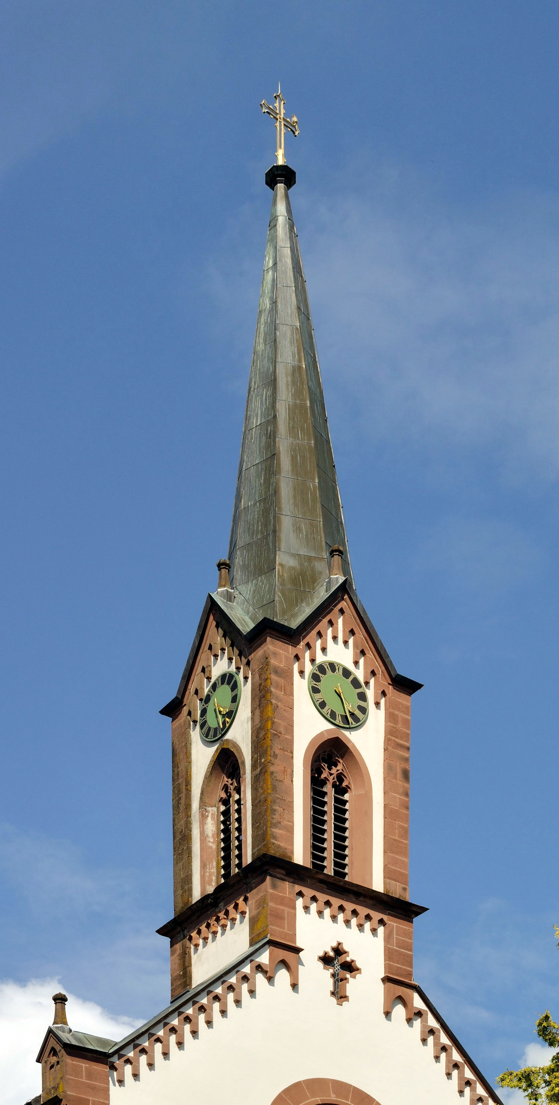 Dossenbach: Protestant Church